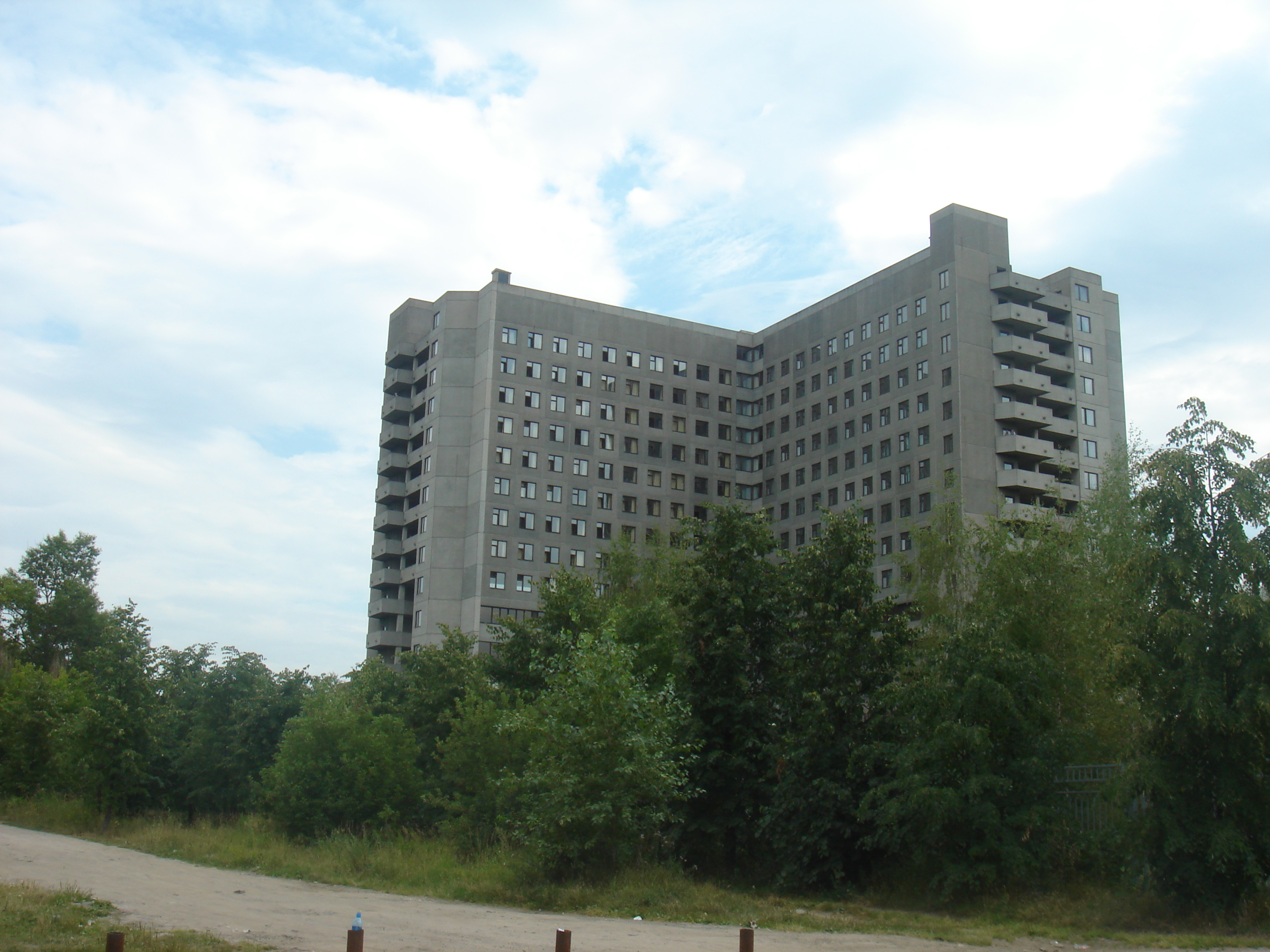 Moscow. Losinoostrovsky district. Hospital of veterans of wars